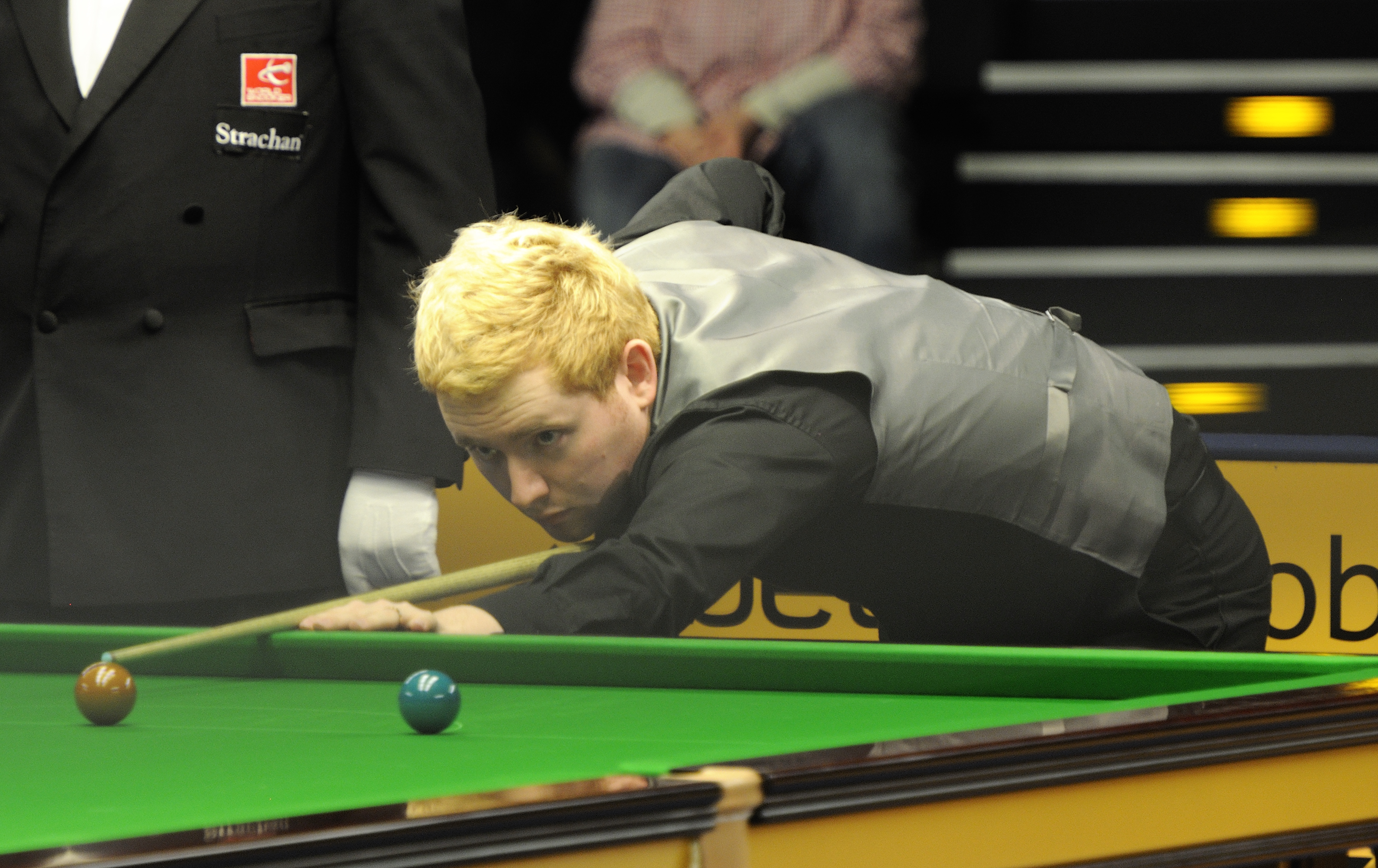 Picture taken in Berlin during the Snooker German Masters in 2013. Ben Woollaston.